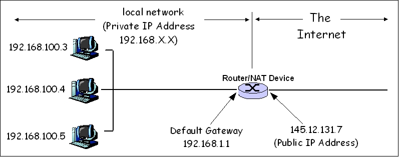 en:/Images